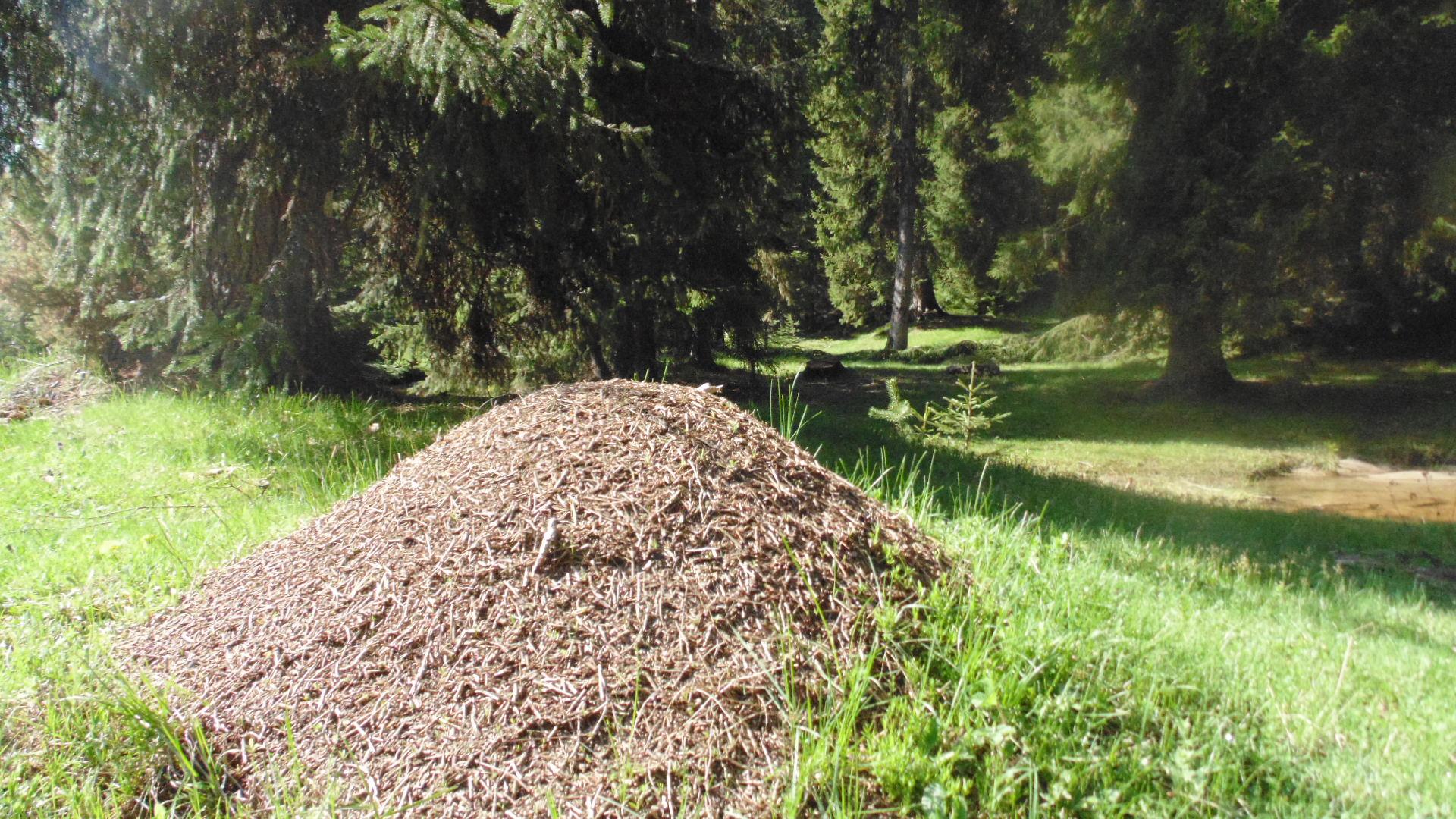 Ant hill near Chepinska River, near Karatepe